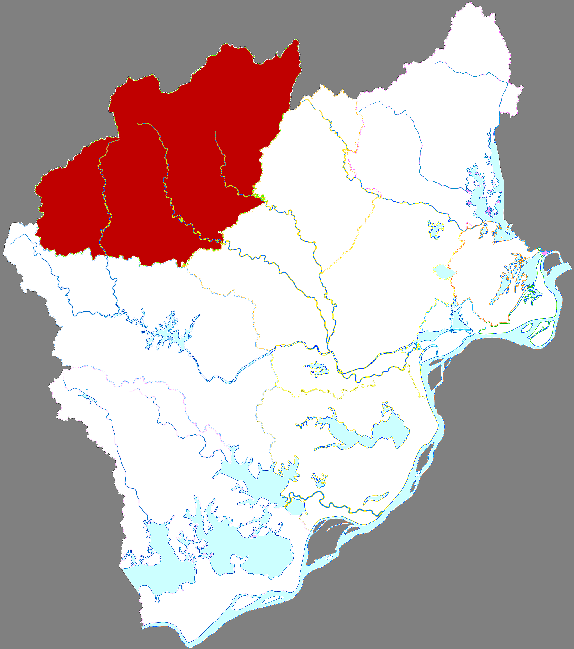 Location of Yuexi county in Anqing city, China